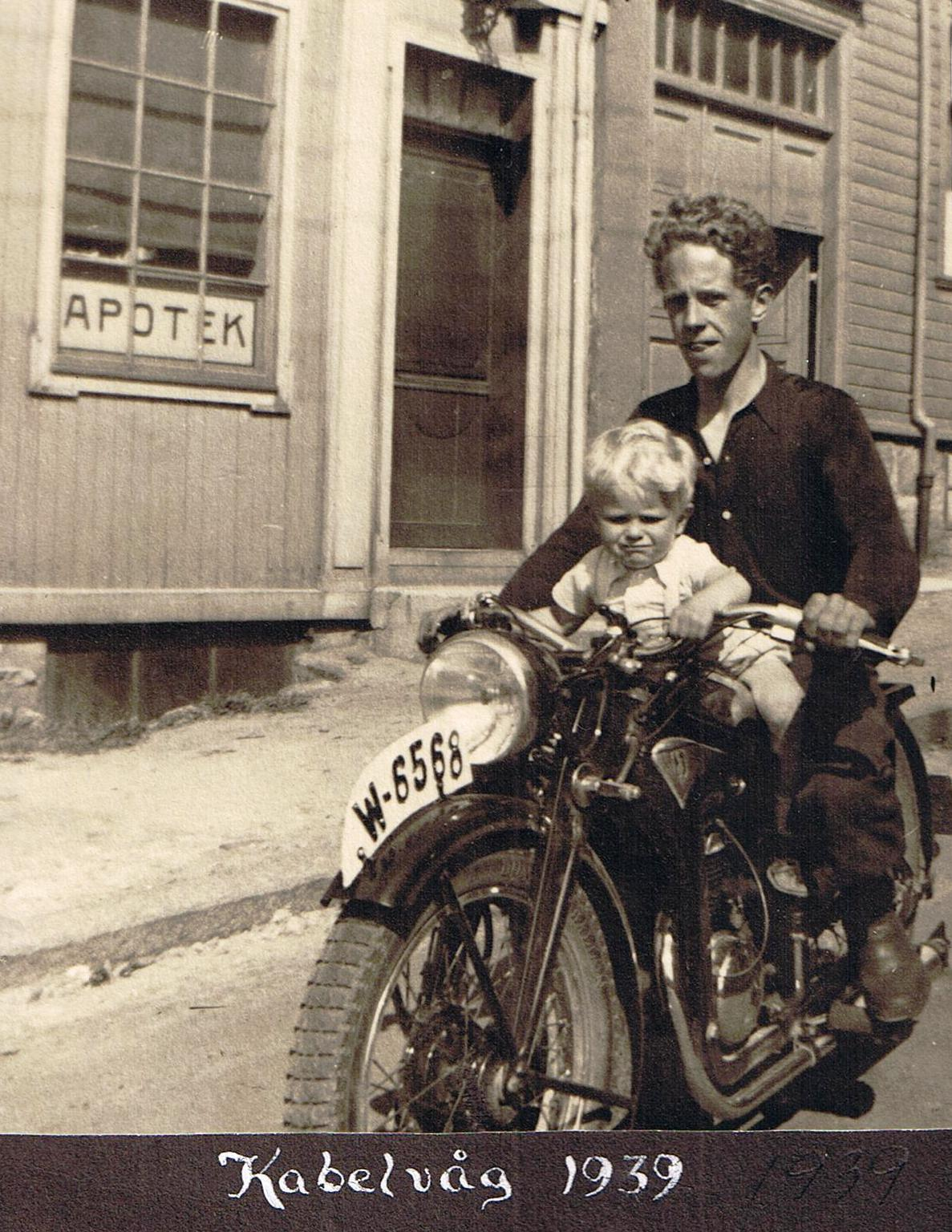 Robert Hassel with his nephew in front of his father's drug store in Lofoten.